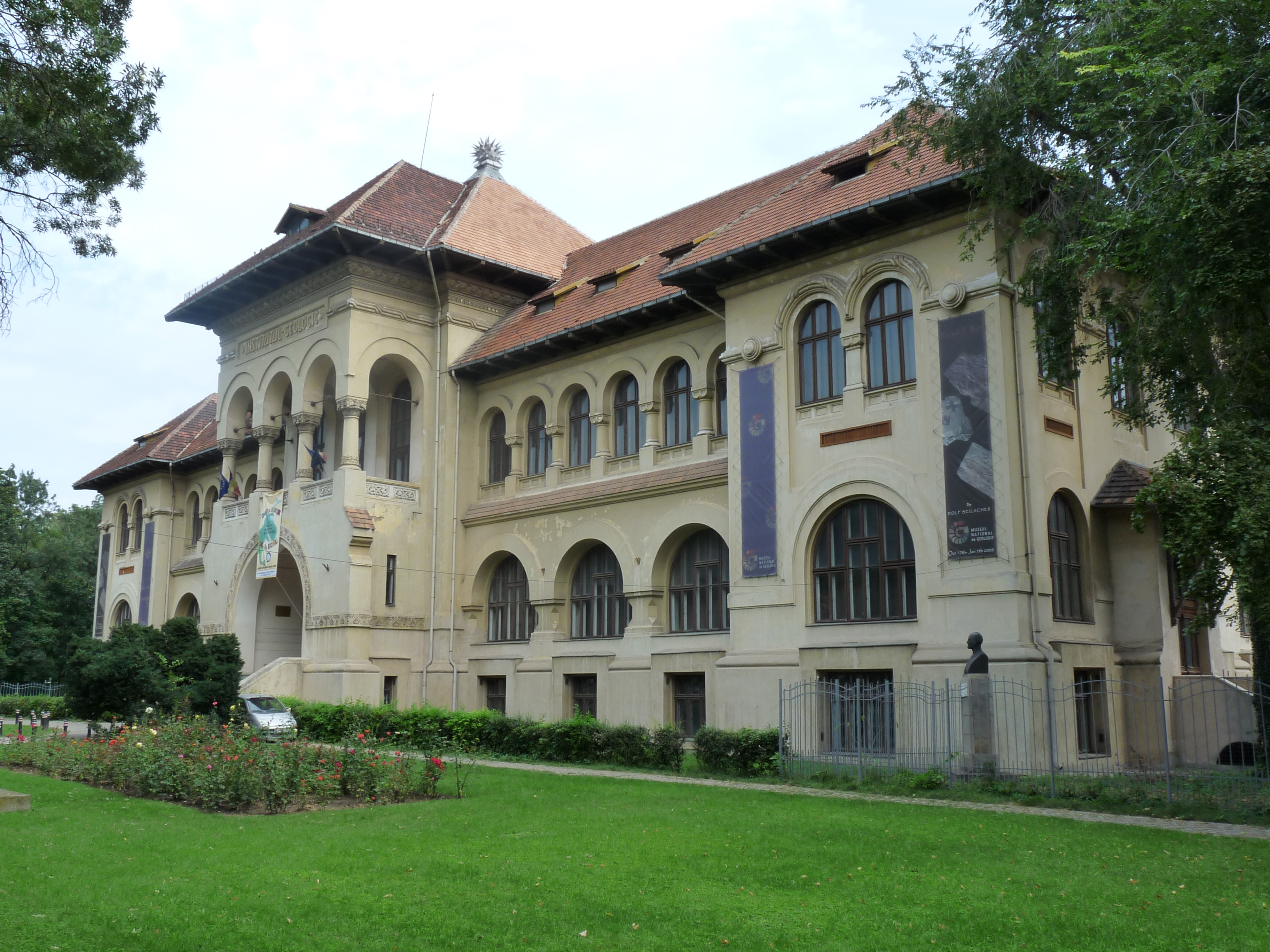 The Geology Museum in Bucharest, Romania